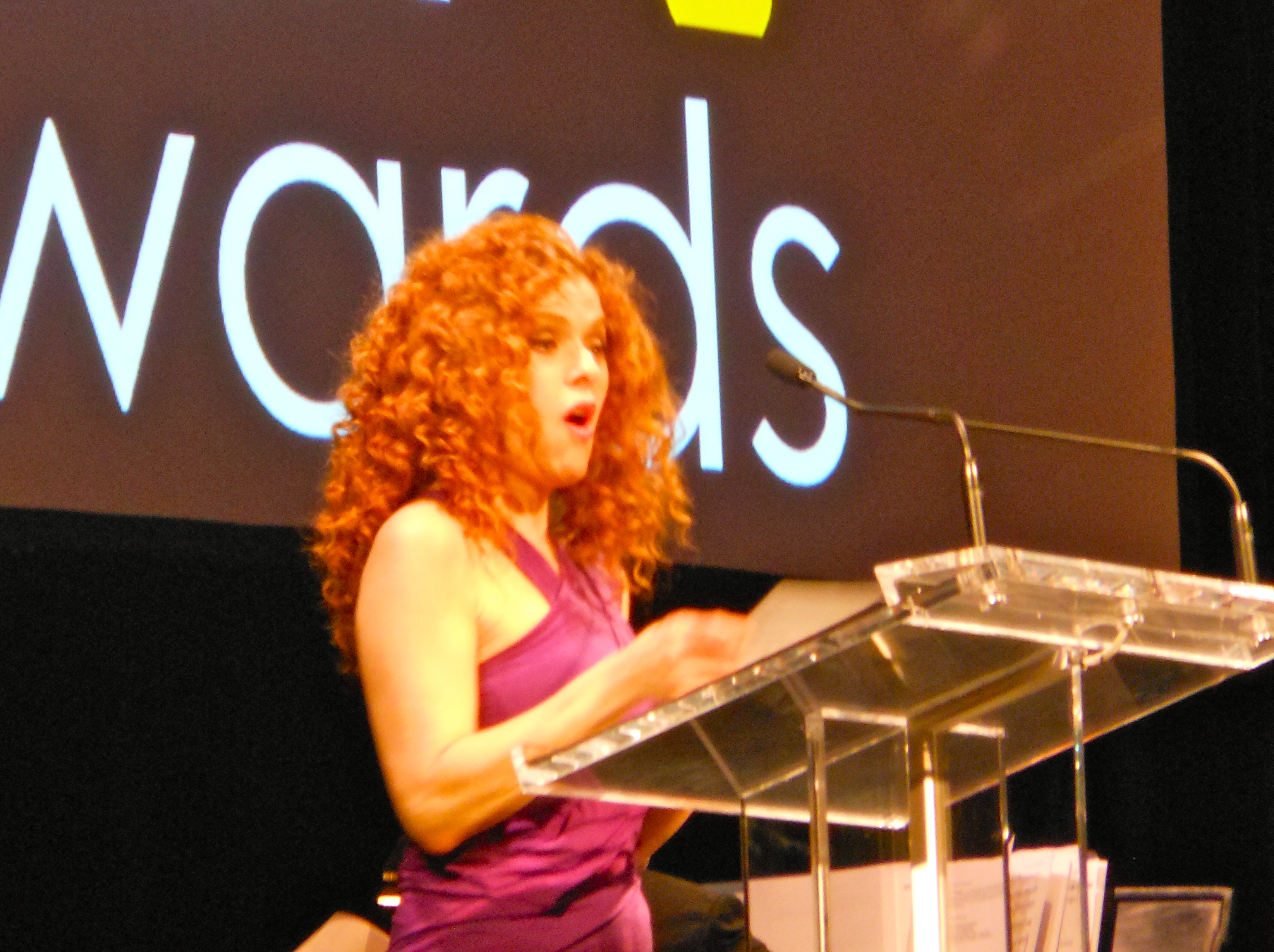 The 57th Annual Drama Desk Awards. The Town Hall. Sunday June 3rd, 2012. NYC.